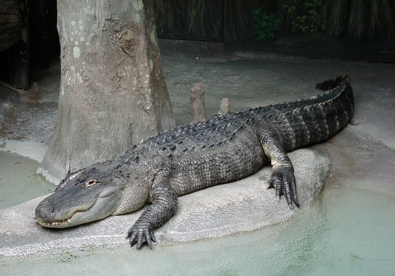 Alligator mississippiensis, Mississippi Alligator, Brookfield Zoo, Chicago, Illinois, USA